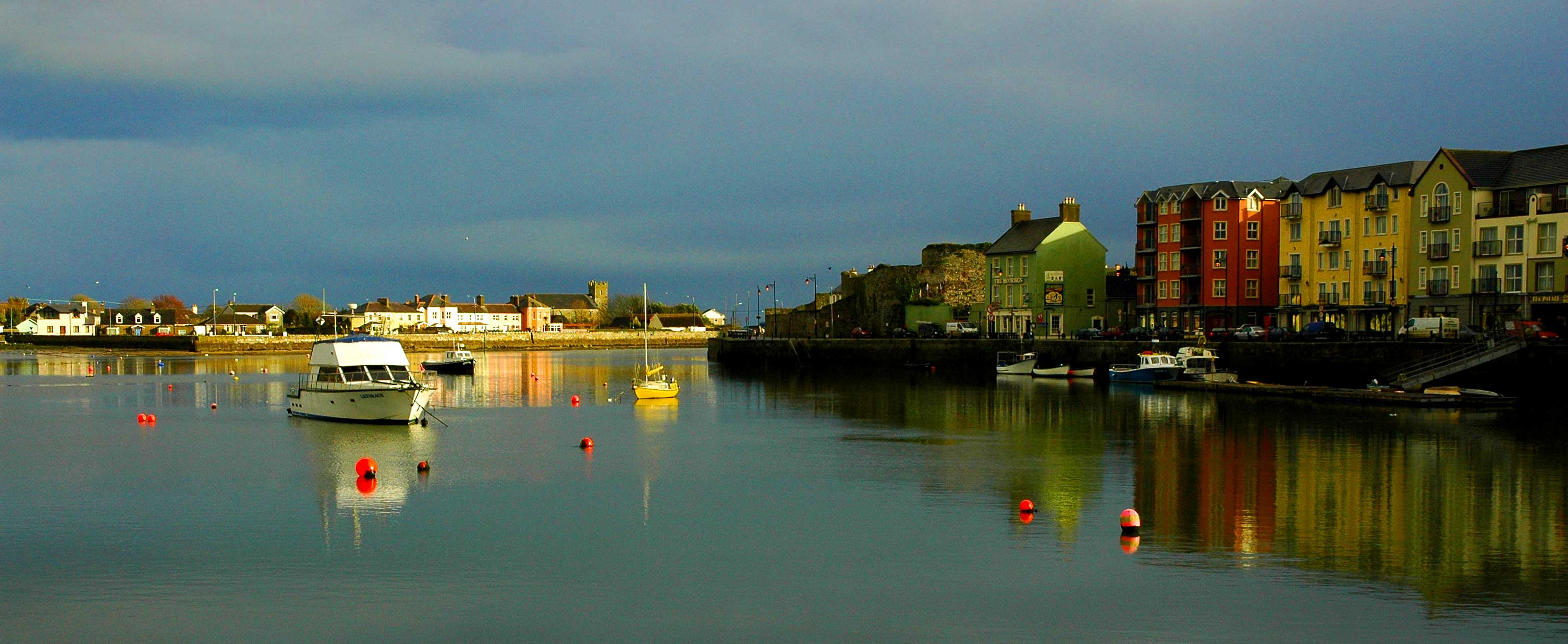 The Harbour in Dungarvan